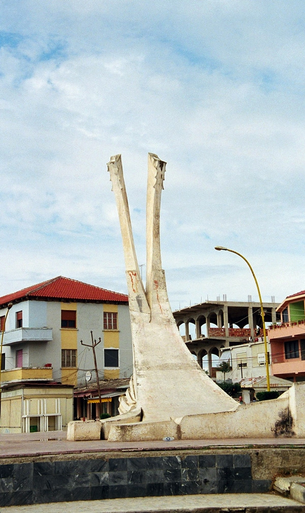 Monumenti i 26 Marsit